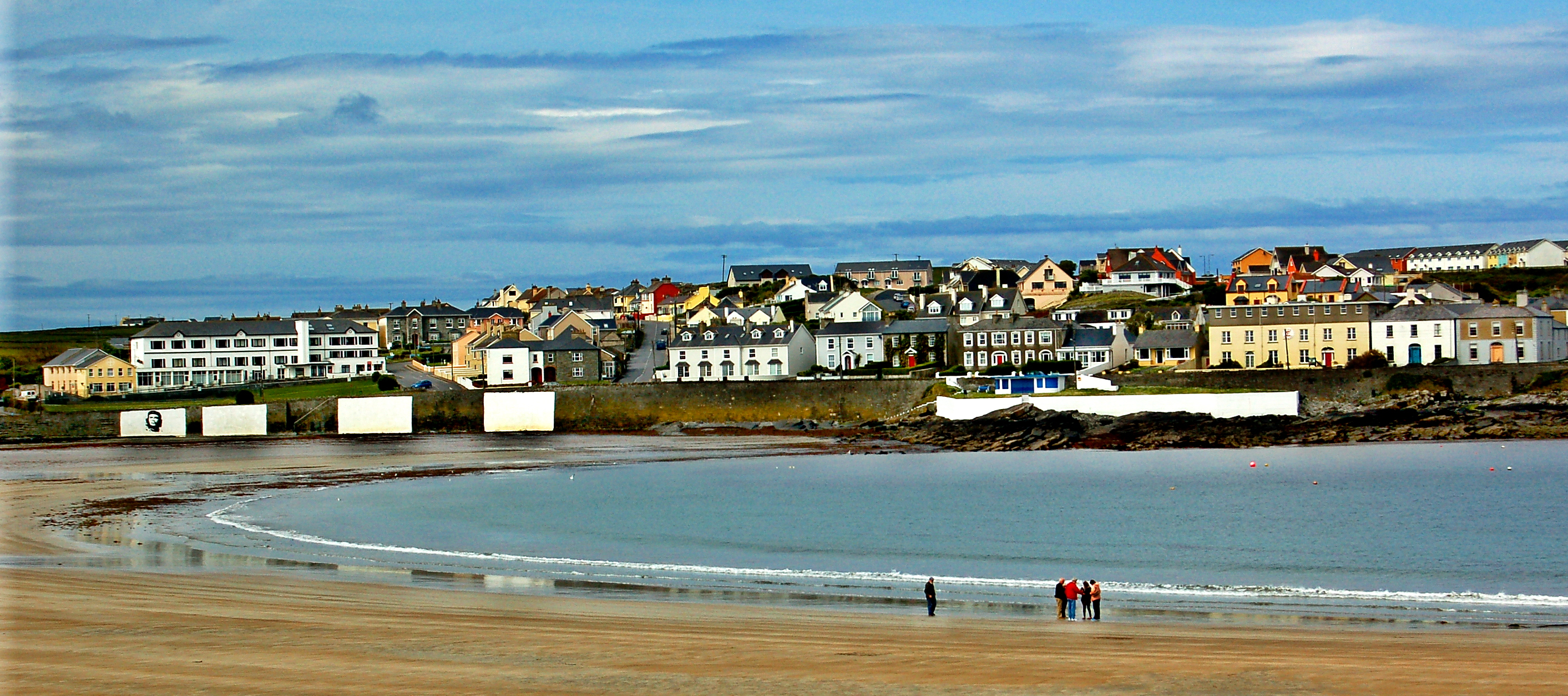 A view of the beach and the West End of the town of Kilkee